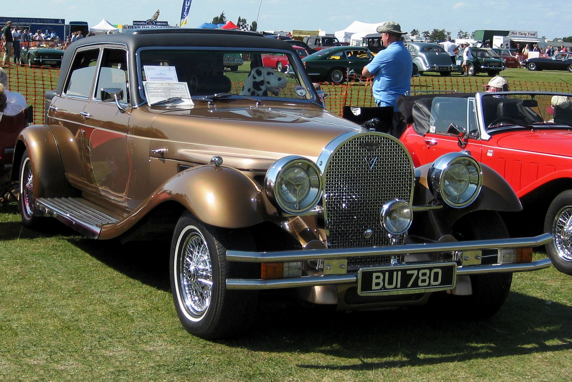 Panther de Ville V12